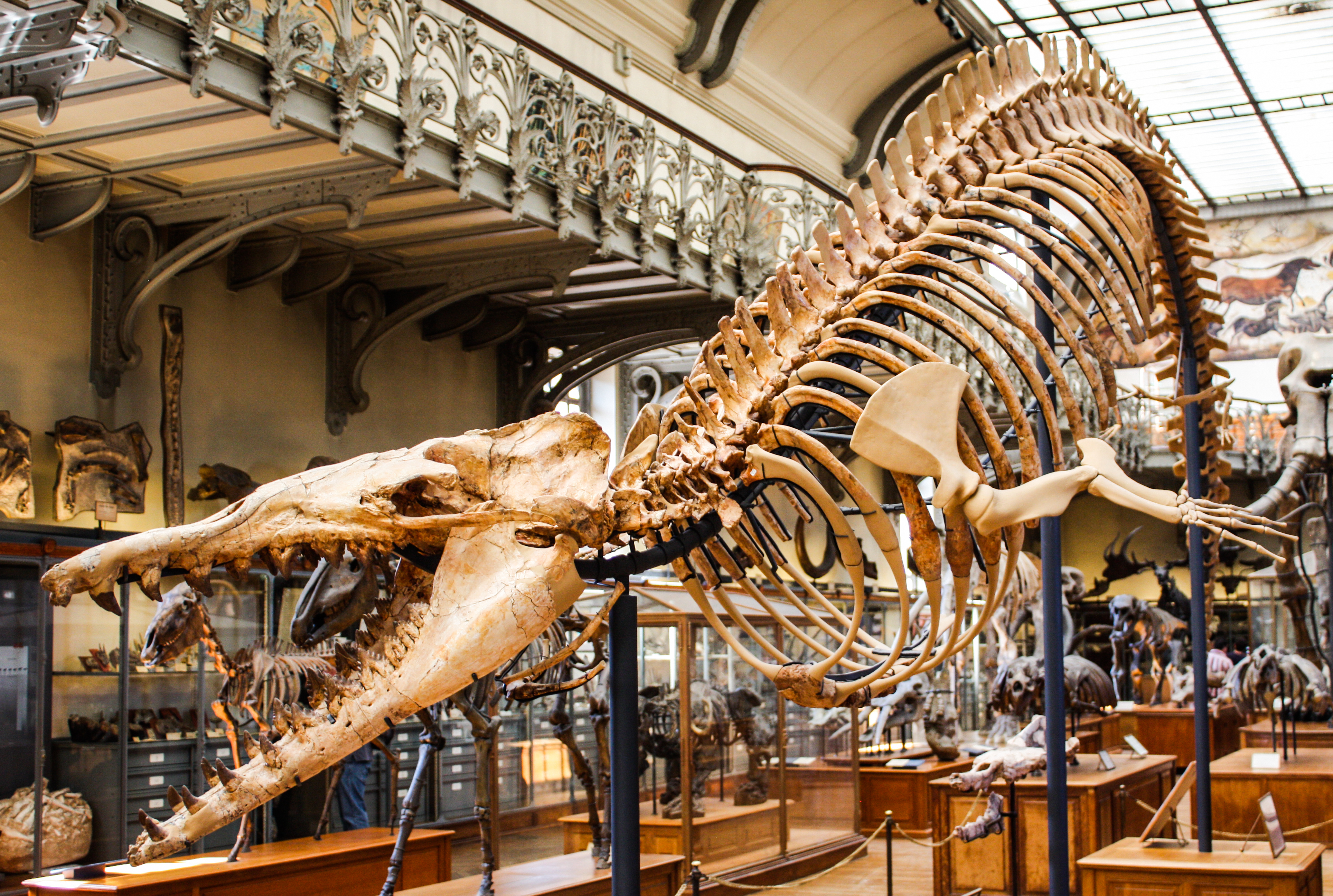 Museum of Natural History